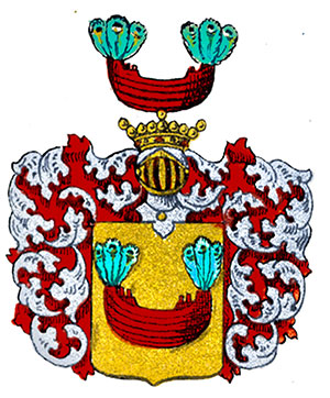 The arms of House of Bonde, the anicent noble family of Sweden.